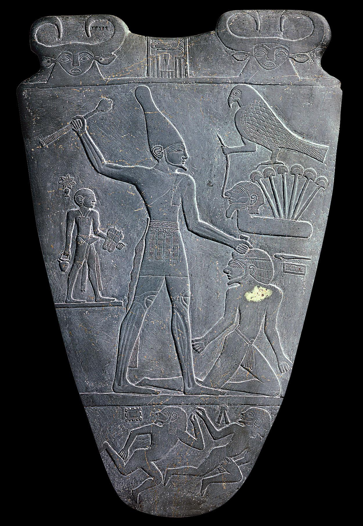 Narmer palette (obverse)